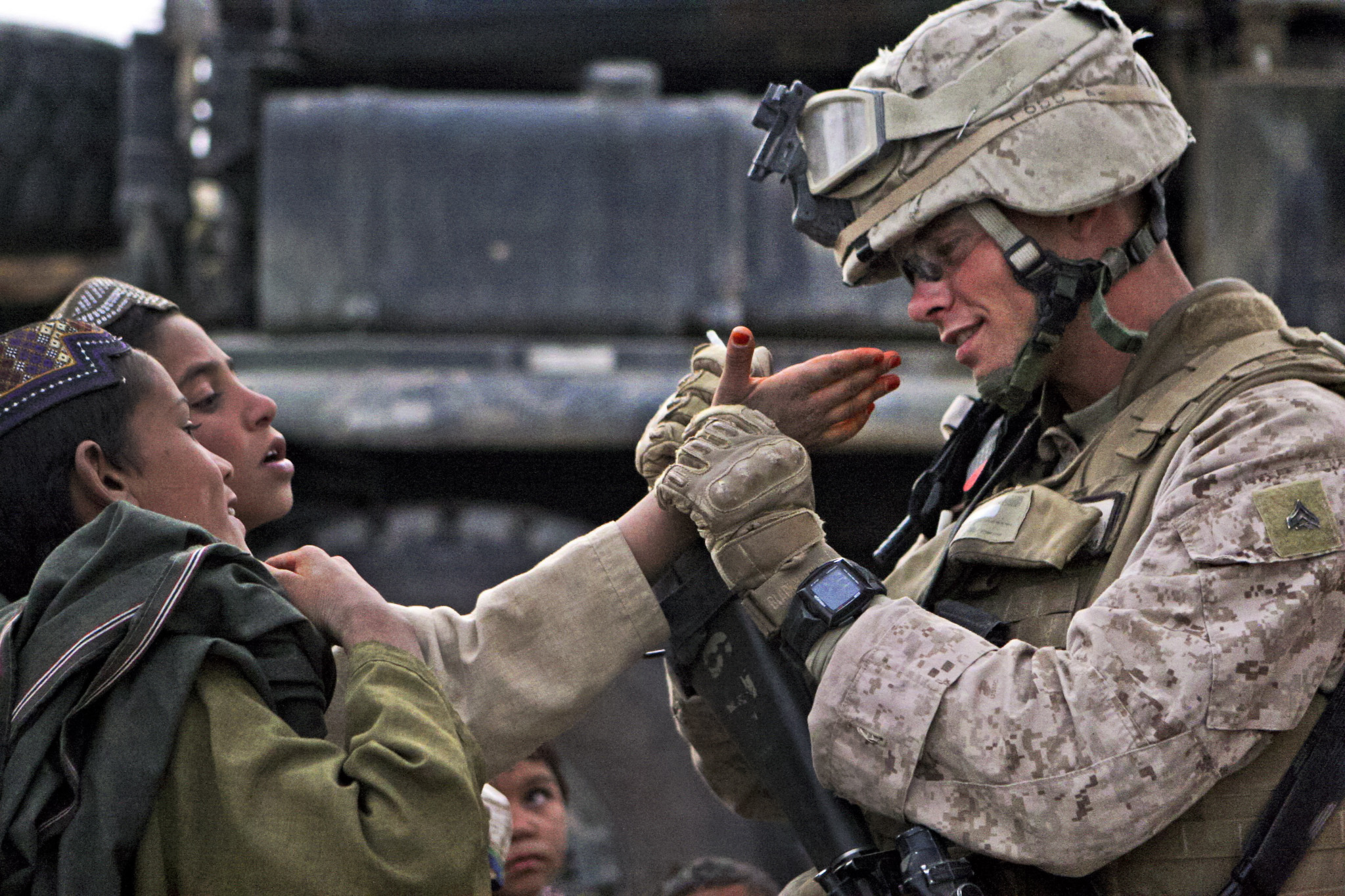 U.S. Marine Corps Lance Cpl. Todd Collins interacts with Afghan children near Patrol Base Atull in Helmand province, Afghanistan, on Nov. 20, 2011. Collins is assigned to the 9th Engineer Support Battalion, 2nd Marine Logistics Group Forward. Marines from the 7th and 9th engineer support battalions were in the area to build bridges.